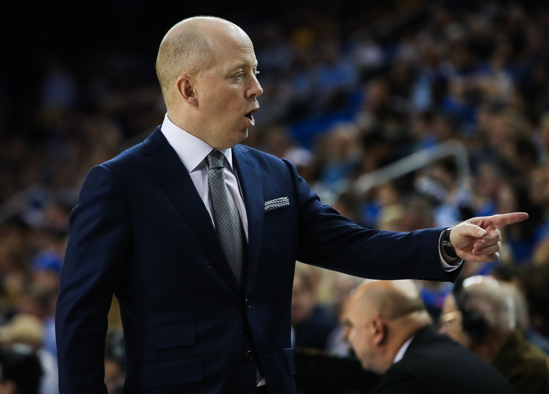 UCLA Bruins head coach Mick Cronin; UCLA defeated UCSB 77-61, November 10, 2019, Los Angeles, CA. Photo by Steve Cheng